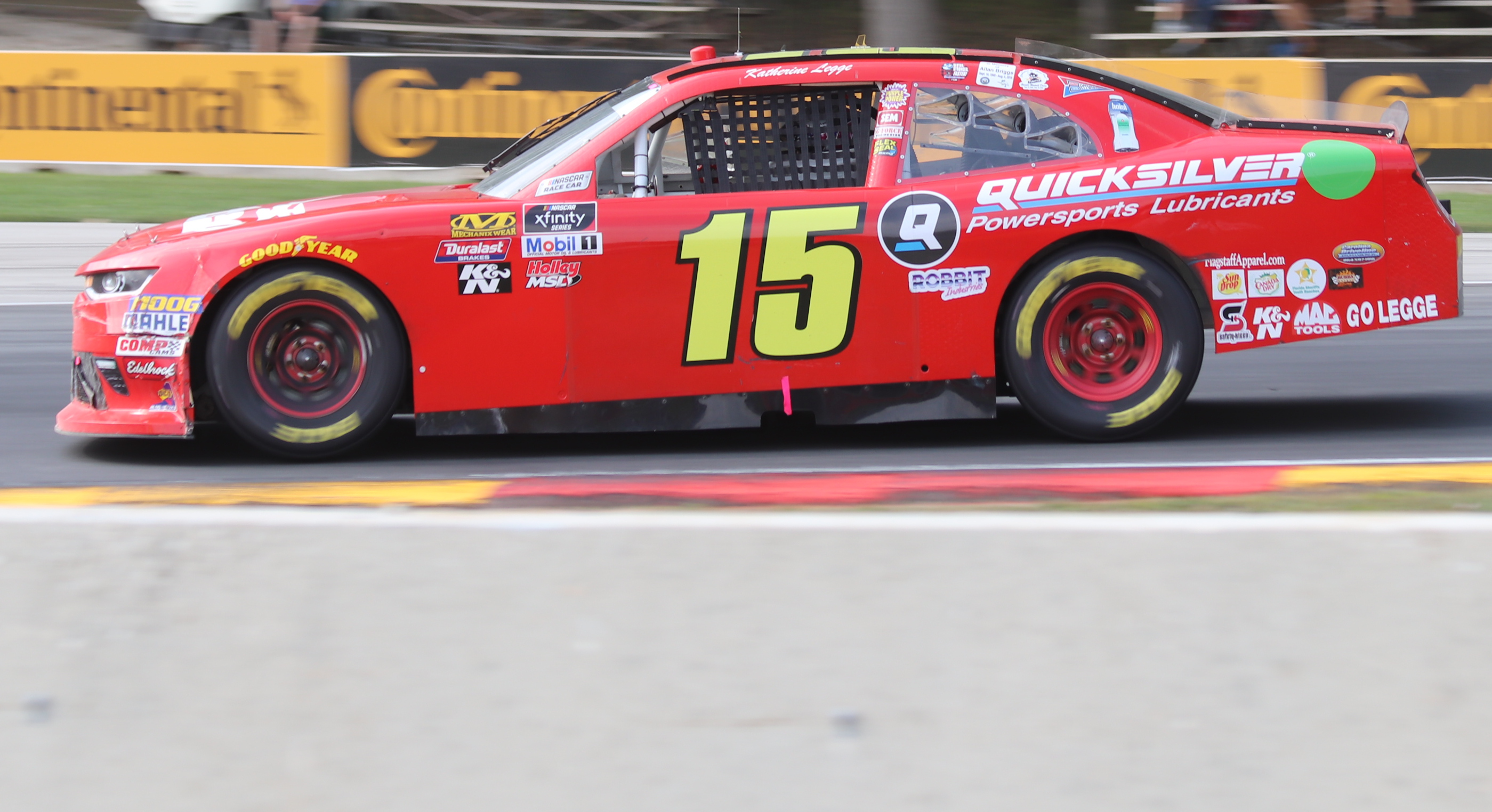 The Chevrolet Camaro of Katherine Legge at the NASCAR Xfinity Series Johnsonville 180.